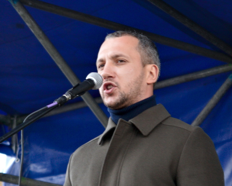 NO to capitulation! Protests in Kyiv. Oct 6, 2019. Dmytro Linko